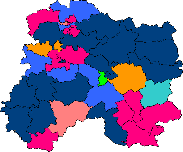 Cantons of Marne in 2008